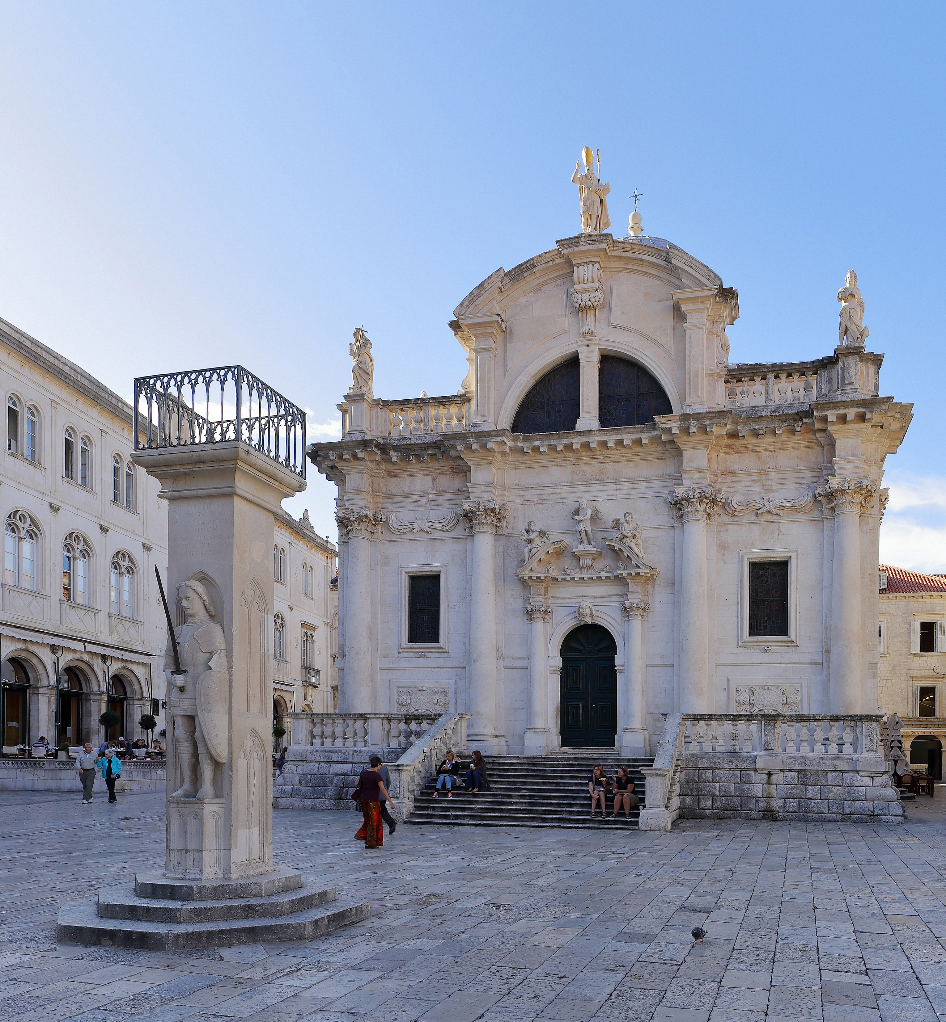 The Church of St. Blaise is a baroque church in Dubrovnik and one of the city's major sights - part of UNESCO World Heritage Site Ref. Number 95.